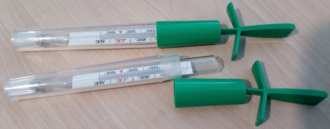 Thermometers with galinstan and its protective housing, which also acts as a reset, facilitating the shaking of the thermometer.